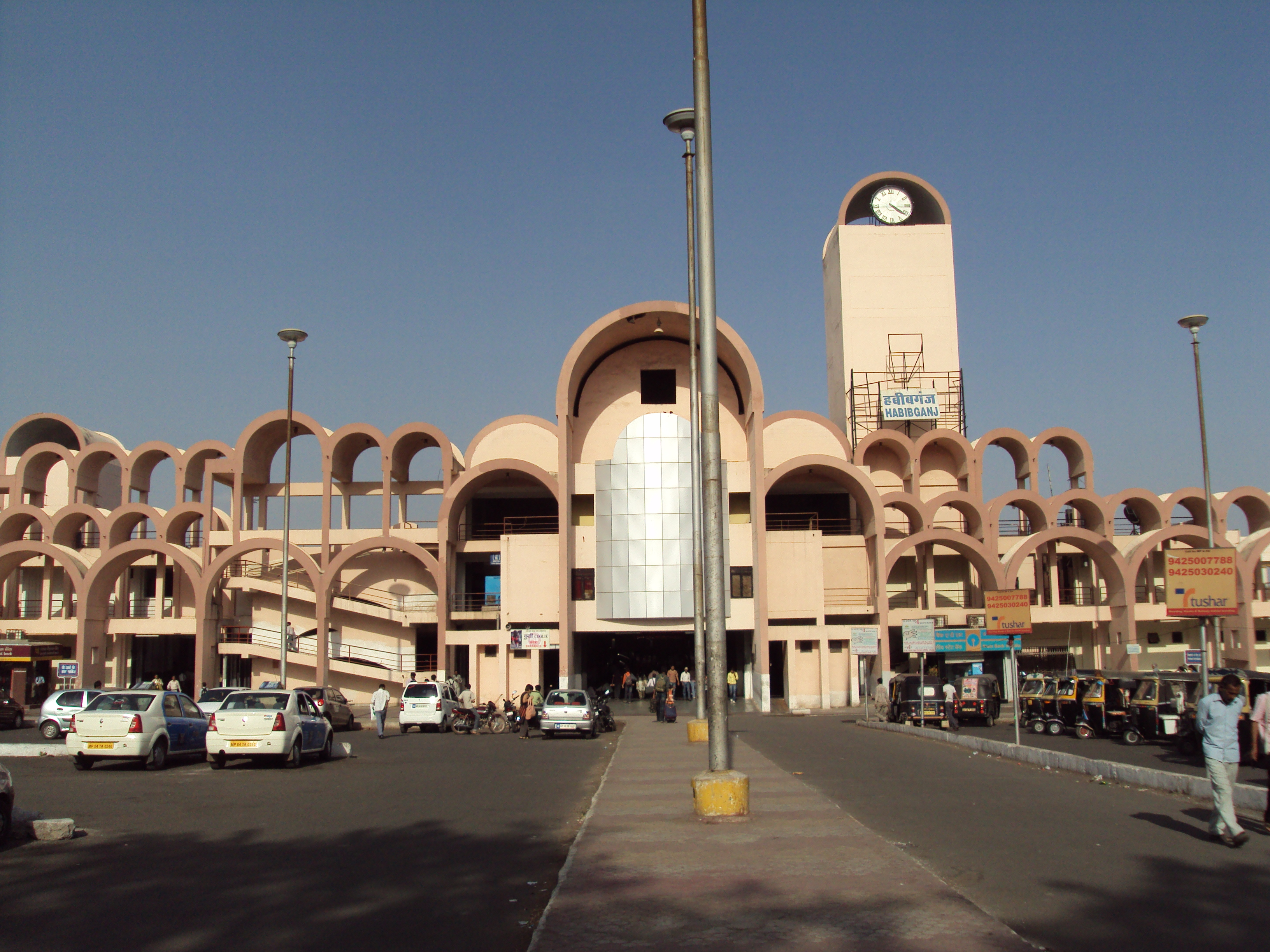 Front view of Habibganj Railway Station,Bhopal from parking lot. Uttam C. Jain architect, 1988-1995